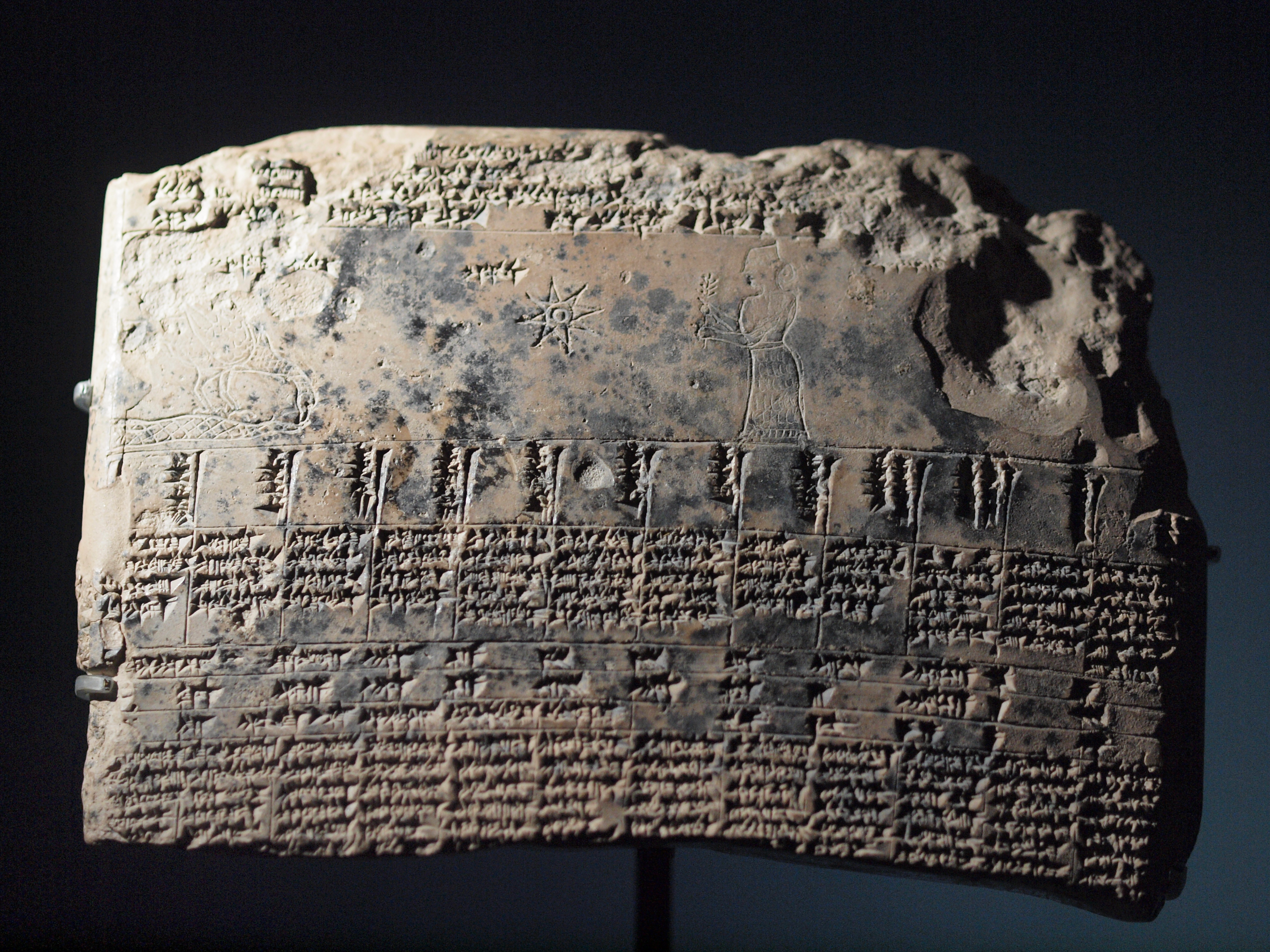 Zodiacal calendar of the cycle of the Virgo Clay tablet Seleucid period, end of 1st millennium BC, copy of an older original Warka, former Uruk, Southern Mesopotamia (Iraq)